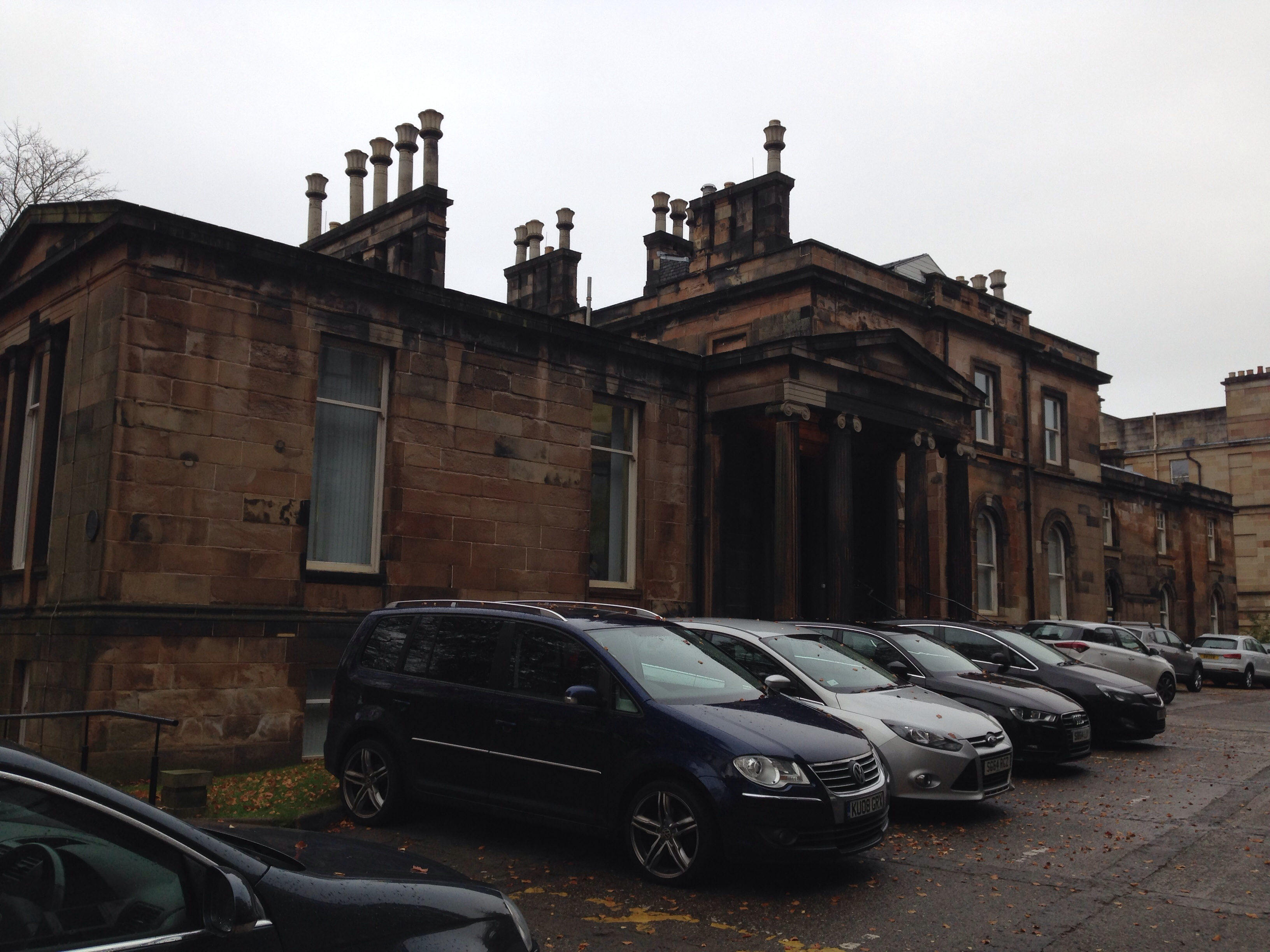 Category A listed UNIVERSITY OF GLASGOW, GILMOREHILL CAMPUS BUILDING D9, 42 BUTE GARDENS, LILYBANK HOUSE